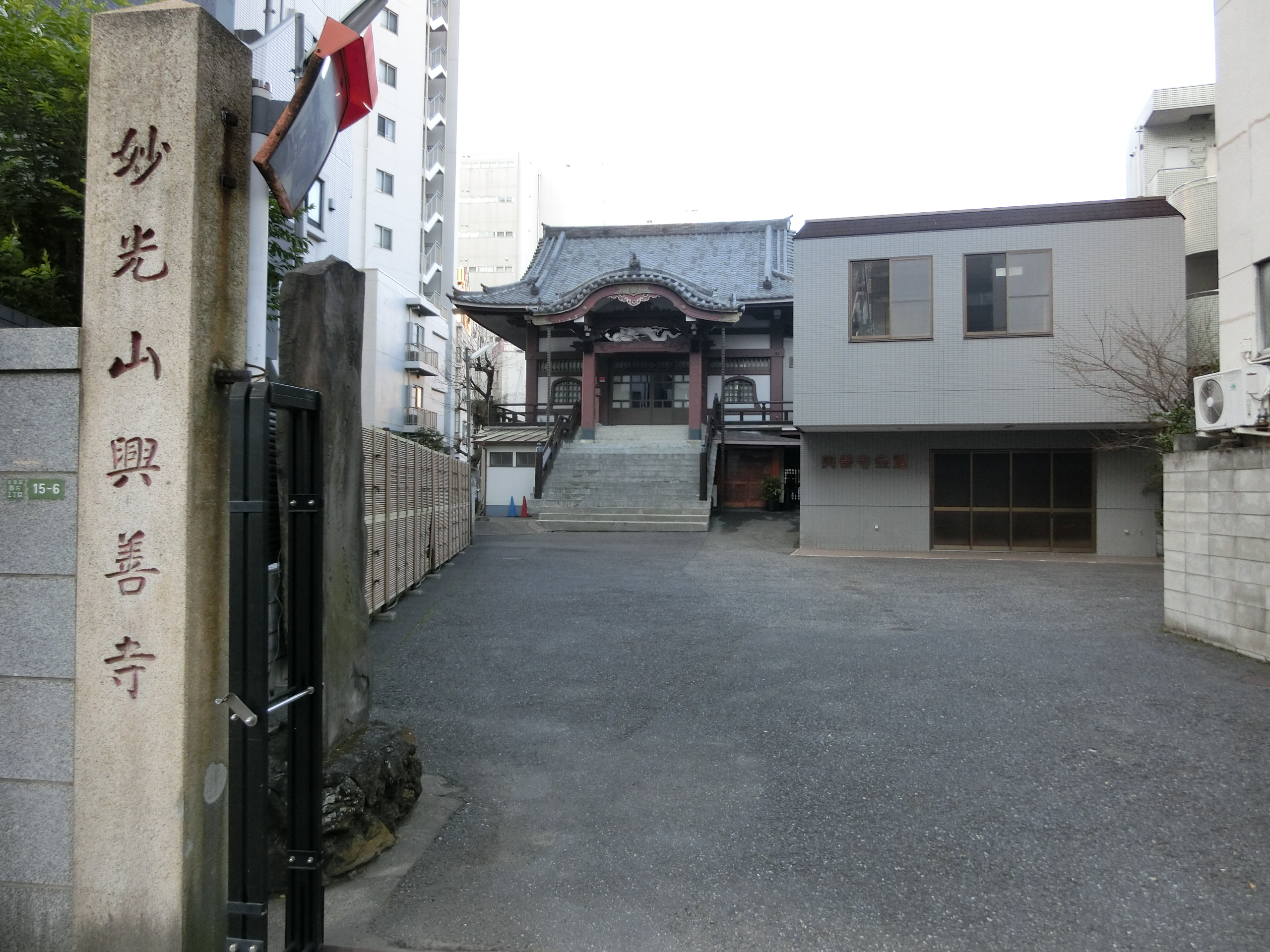 Kozen-ji (Bunkyo)